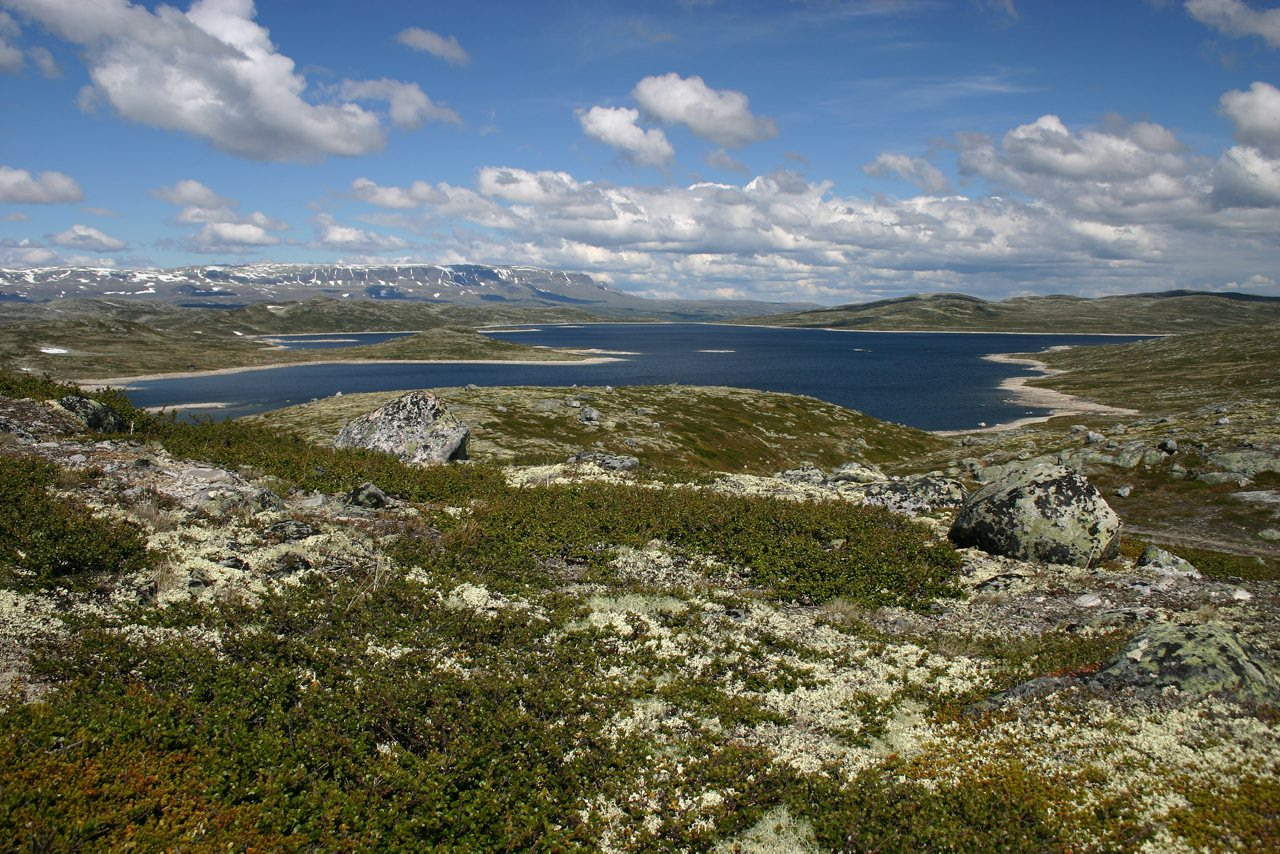 Hardangervidda, Norway. The Hardangervidda is a mountain plateau ("vidda" in Norwegian) in the Hardanger region of western Norway. It is the largest such plateau in Europe, with a cold year-round alpine climate and is the site of one of Norway's largest glaciers. Much of the plateau is protected as part of a national park; it is a popular tourist and leisure destination for many outdoor activities.